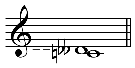 Diaschisma on C = D-- (Ben Johnston's notation). 2048:2025 = 19.5 cents. Limit: 5-limit.